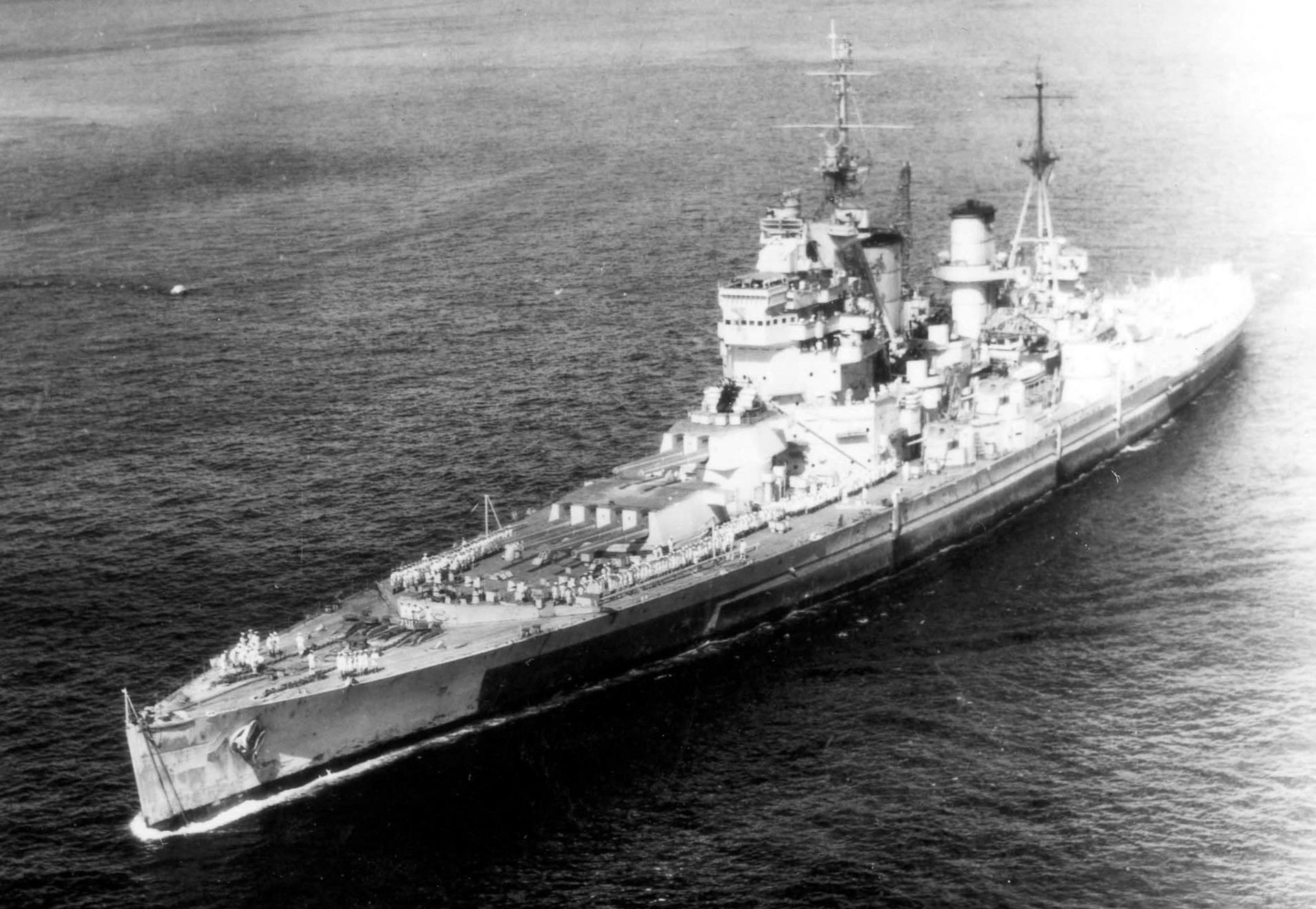 The British battleship HMS King George V enters Apra Harbor, Guam, with sailors in formation on deck. 1945